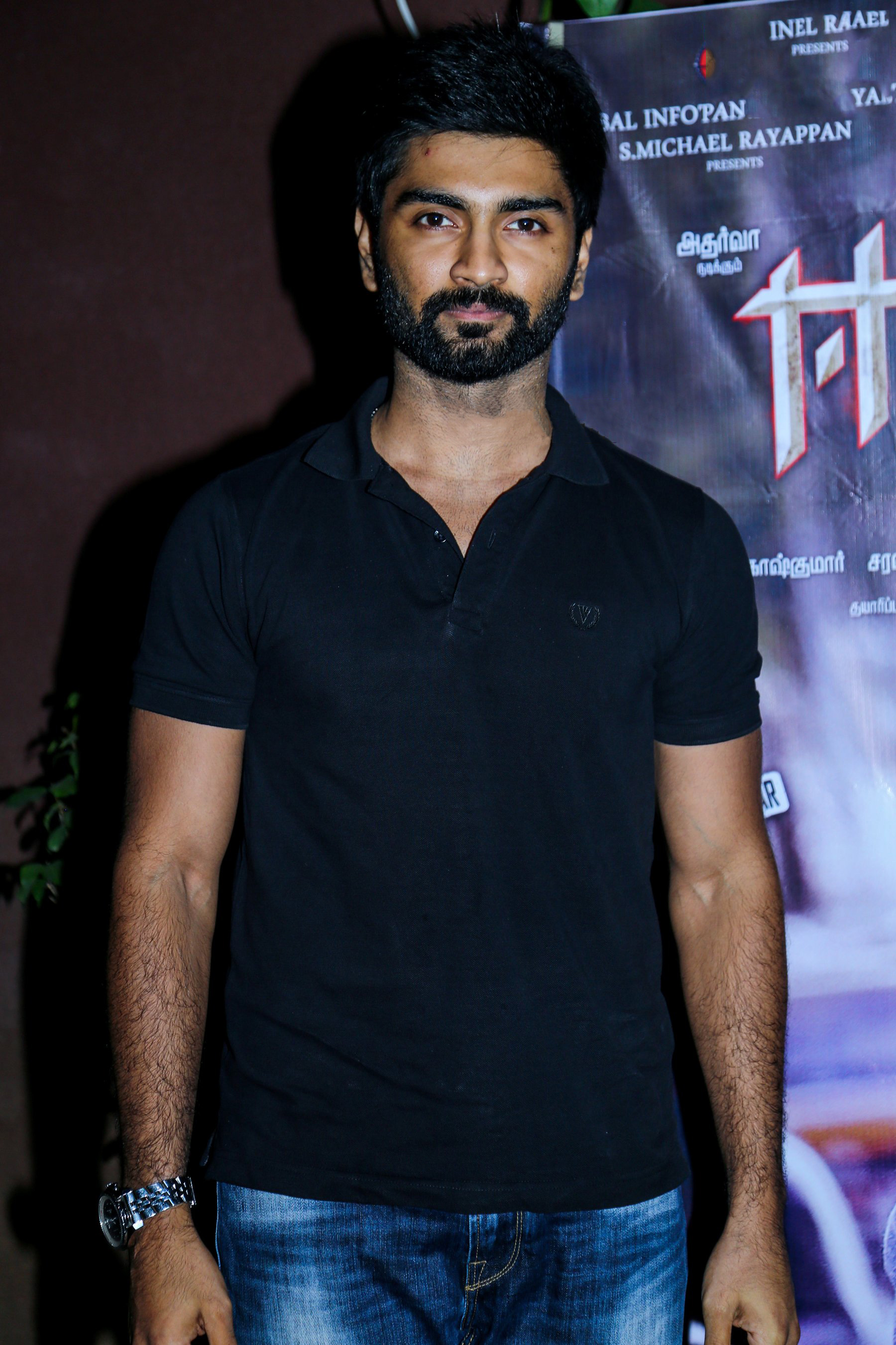 Atharvaa at Eetti Success Meet